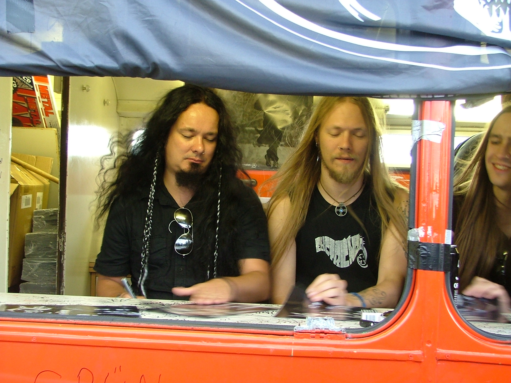 Finnish folk metal band Finntroll at the Summer Breeze in Dinkelsbühl